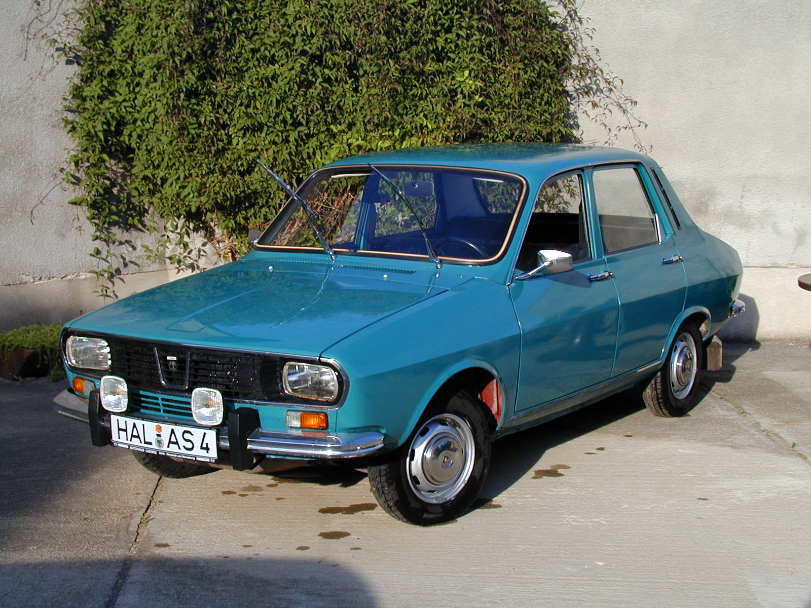 A 1973 Dacia 1300 “Berlina” (a Renault 12 built under Romanian license). The vehicle is registred in Halle, Germany.